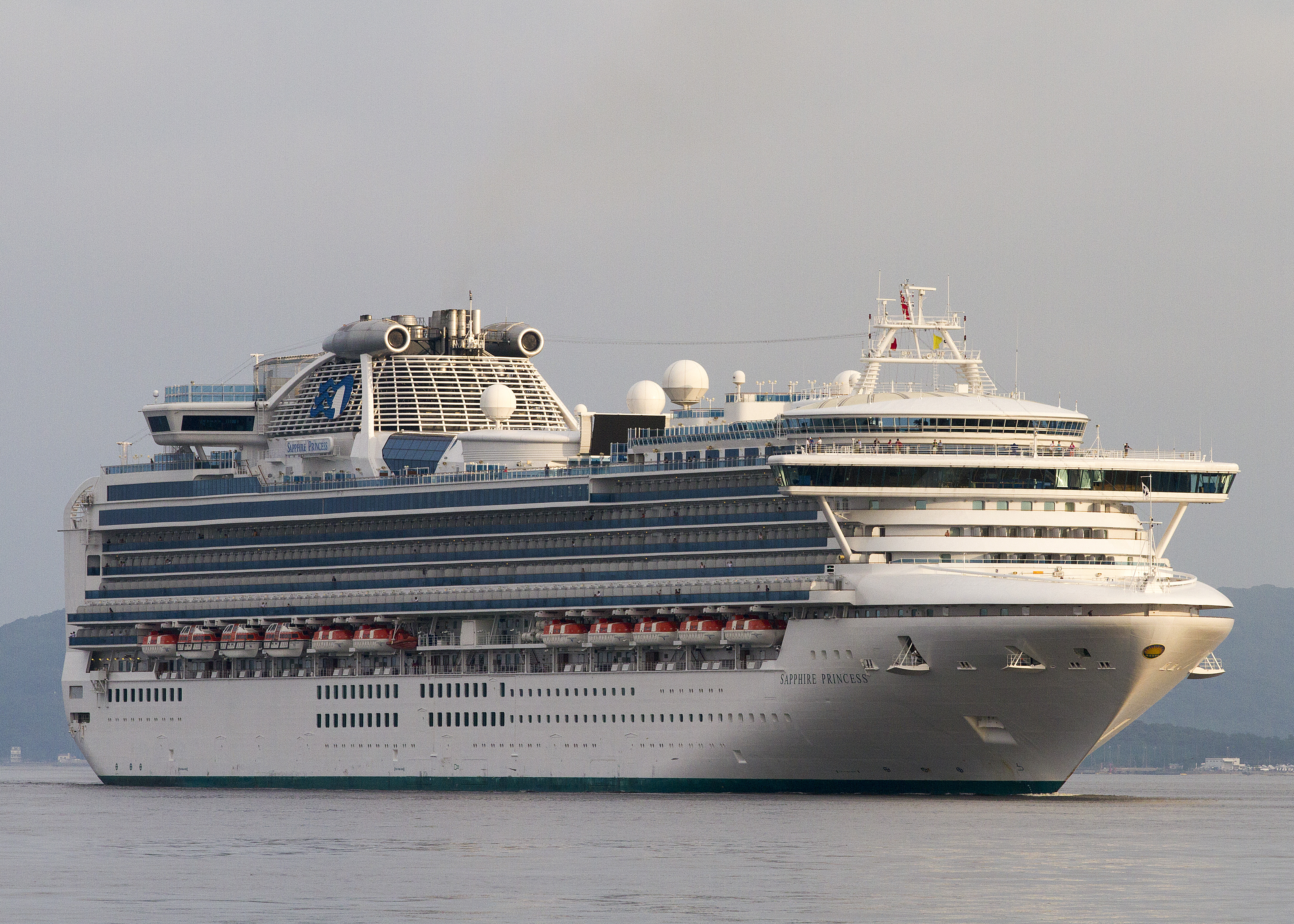 Sapphire Princess at hakata port